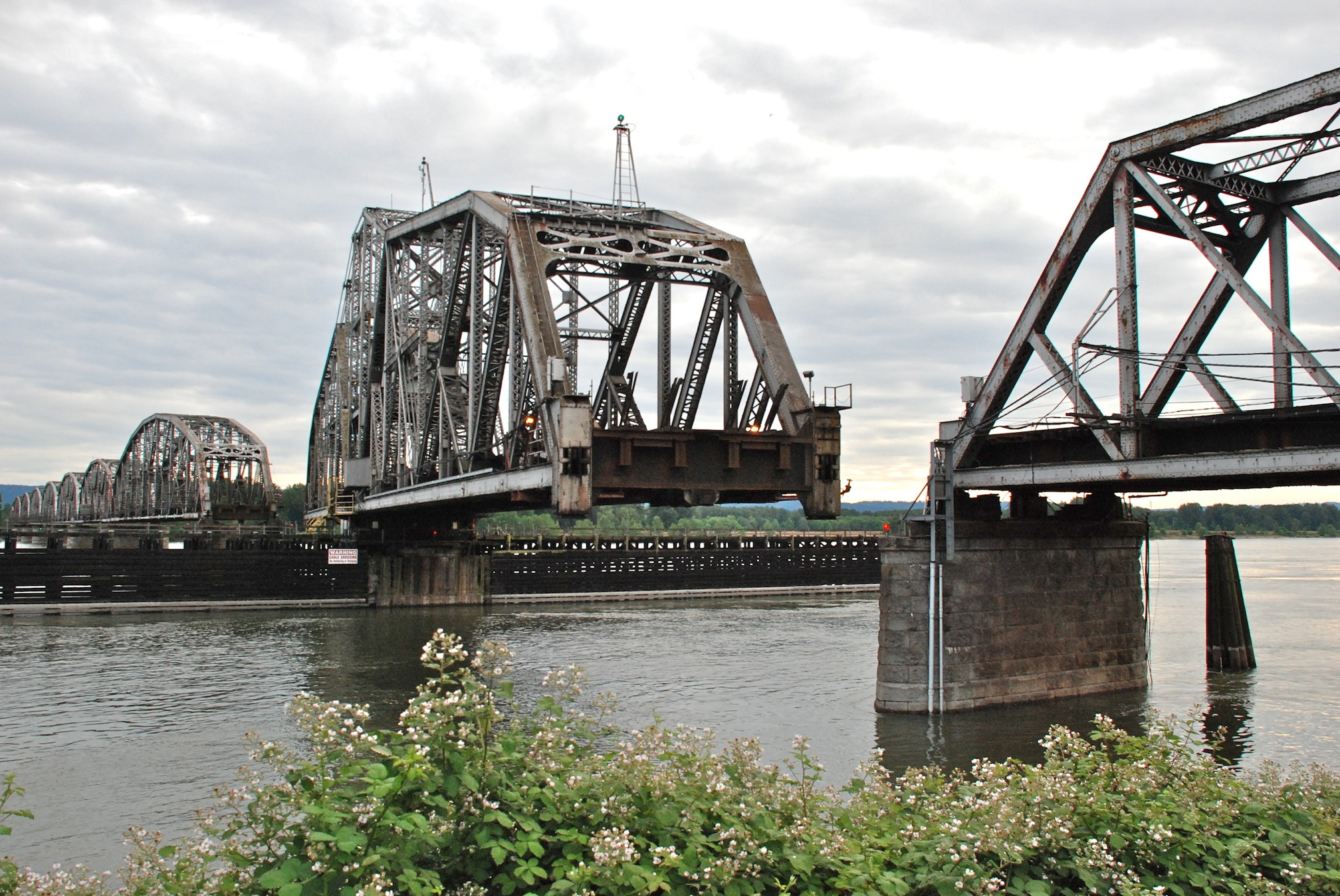 The BNSF Railway Bridge 9.6 is a swing-span railroad bridge across the Columbia River, connecting Portland, Oregon with Vancouver, Washington, United States. It was opened in 1908. This photo was taken from near the bridge's northern end, in Vancouver, showing the swing-span section turning (in the process of closing).